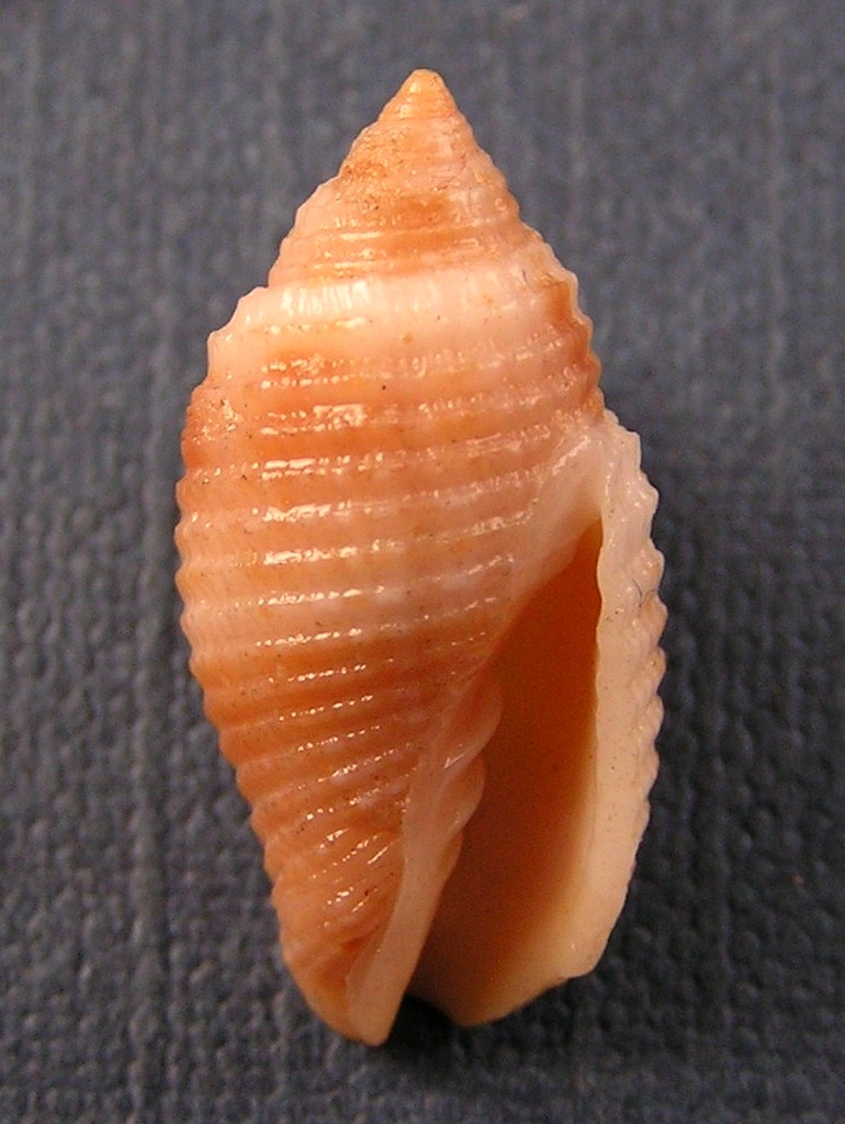 Tiarella scabricula (synonym: Pterygia scabricula C. Linnaeus, 1758), a sea snail from the family Mitridae; Philippines